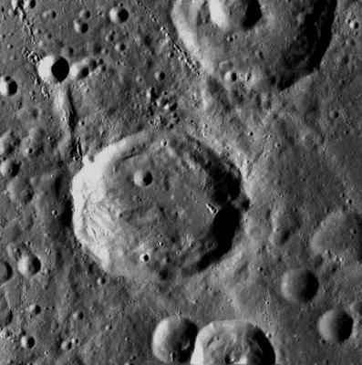 Raimond lunar crater - LROC image. Chains and bright ray material from Jackson (located at upper left, out of the frame)